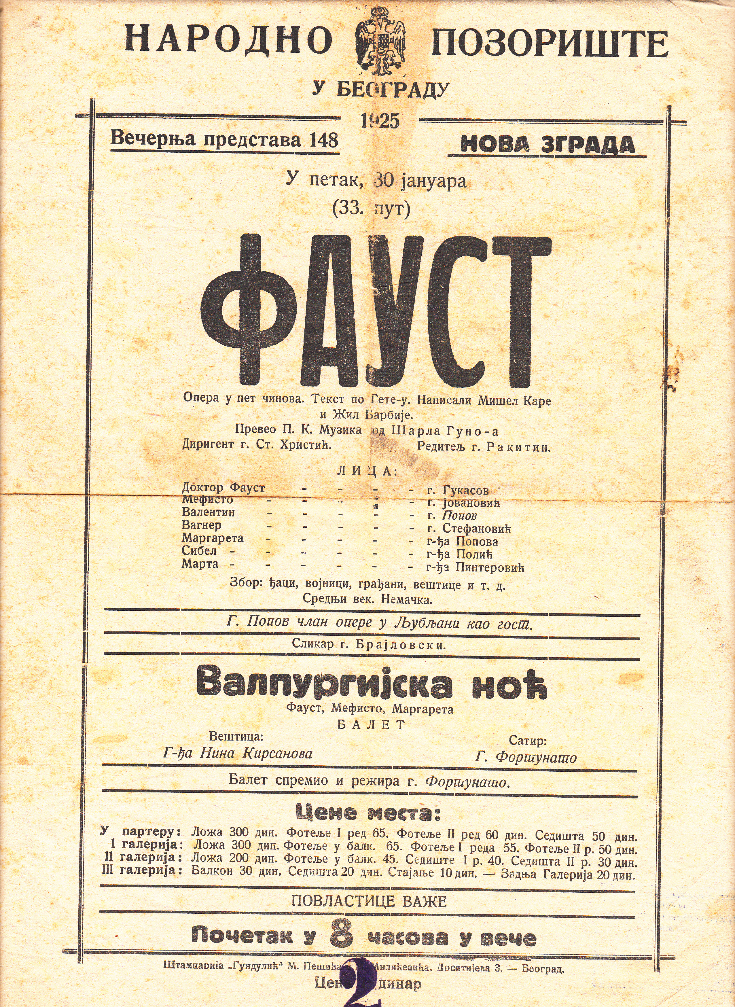 A poster announcing the performance of the opera "Faust" at the National Theater in Belgrade (1925). Inventory number 2200. Srpski (latinica): Plakat koji najavljuje izvođenje opera "Faust" u Narodnom pozorištu u Beogradu (1925). Inventarski broj 2200.